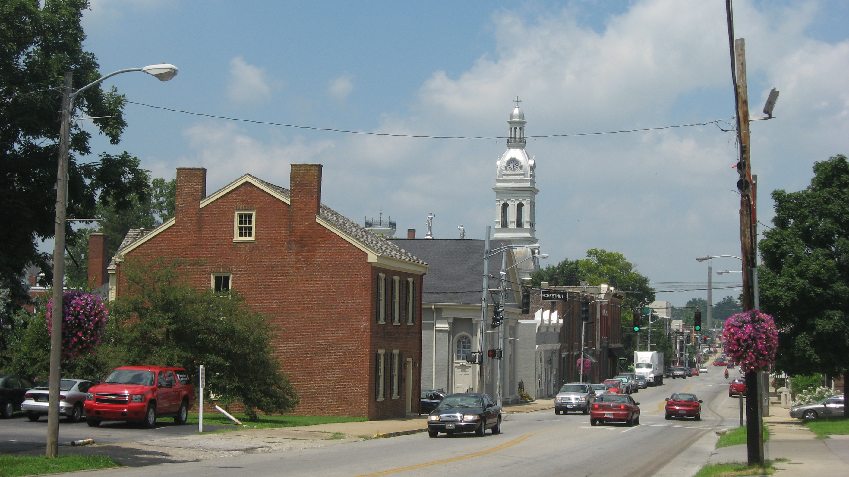 Looking northward along the first two blocks of South Main Street (U.S. Route 27) in downtown Nicholasville, Kentucky, United States. These blocks are part of the Nicholasville Historic District, a historic district that is listed on the National Register of Historic Places.